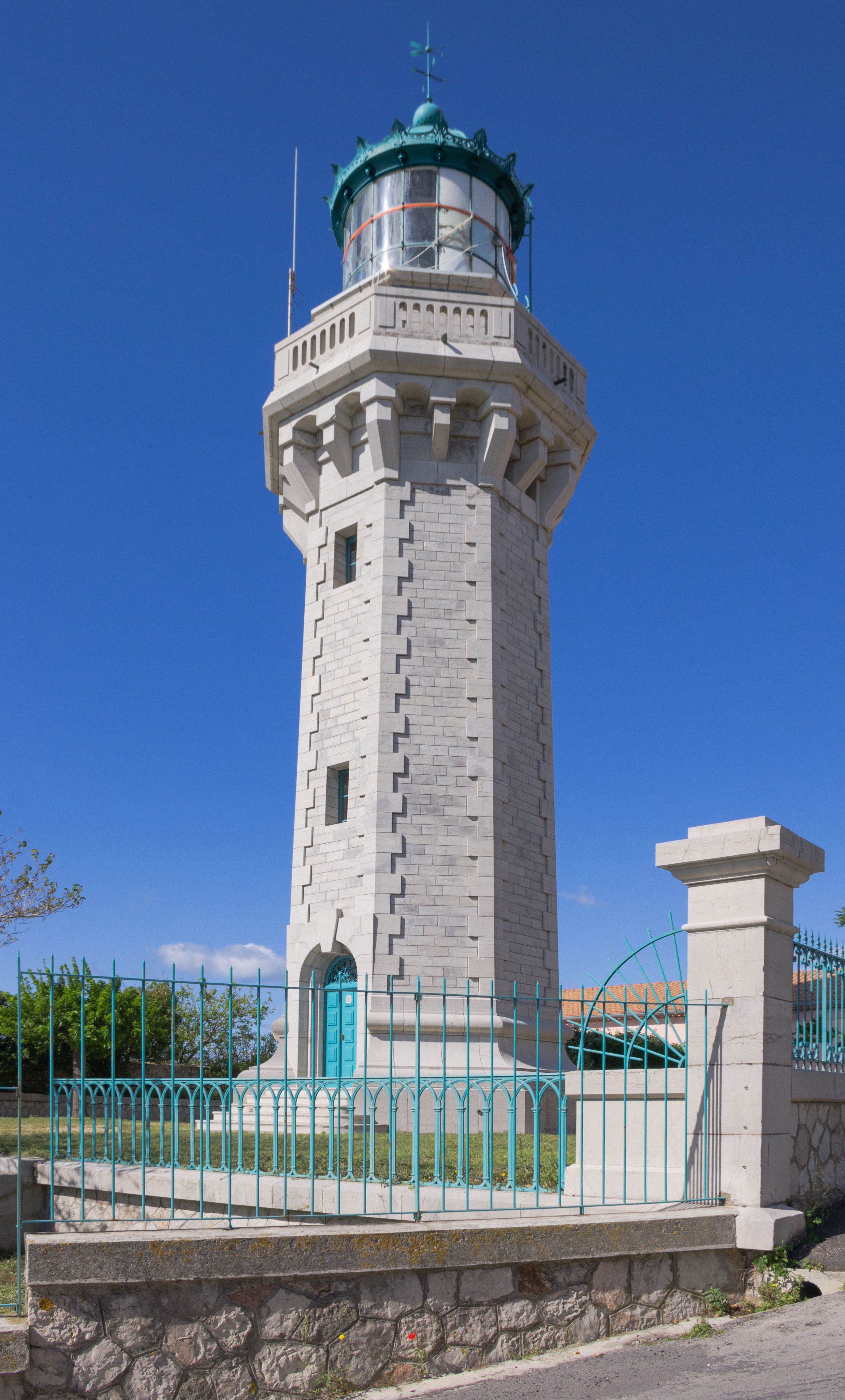 Lighthouse of the Mount Saint-Clair. Sète, Hérault, France. .